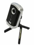 StarVedia IC202w network camera